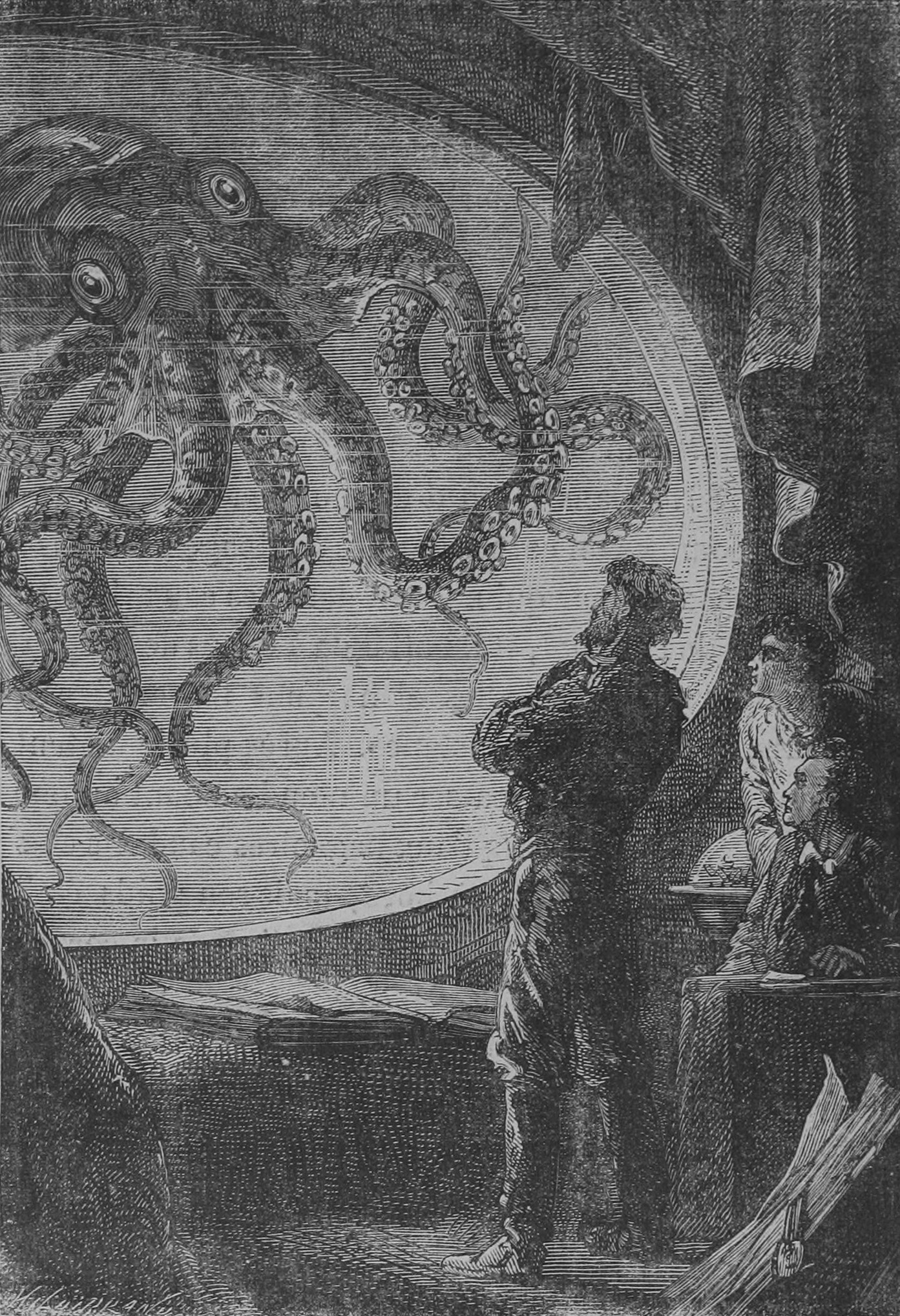 Image from scan vingtmillelieue00vern_orig_0404.jp2